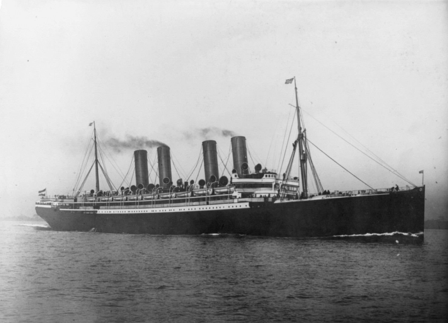 The German liner SS Kaiser Wilhelm der Grosse in 1897, full starboard view.